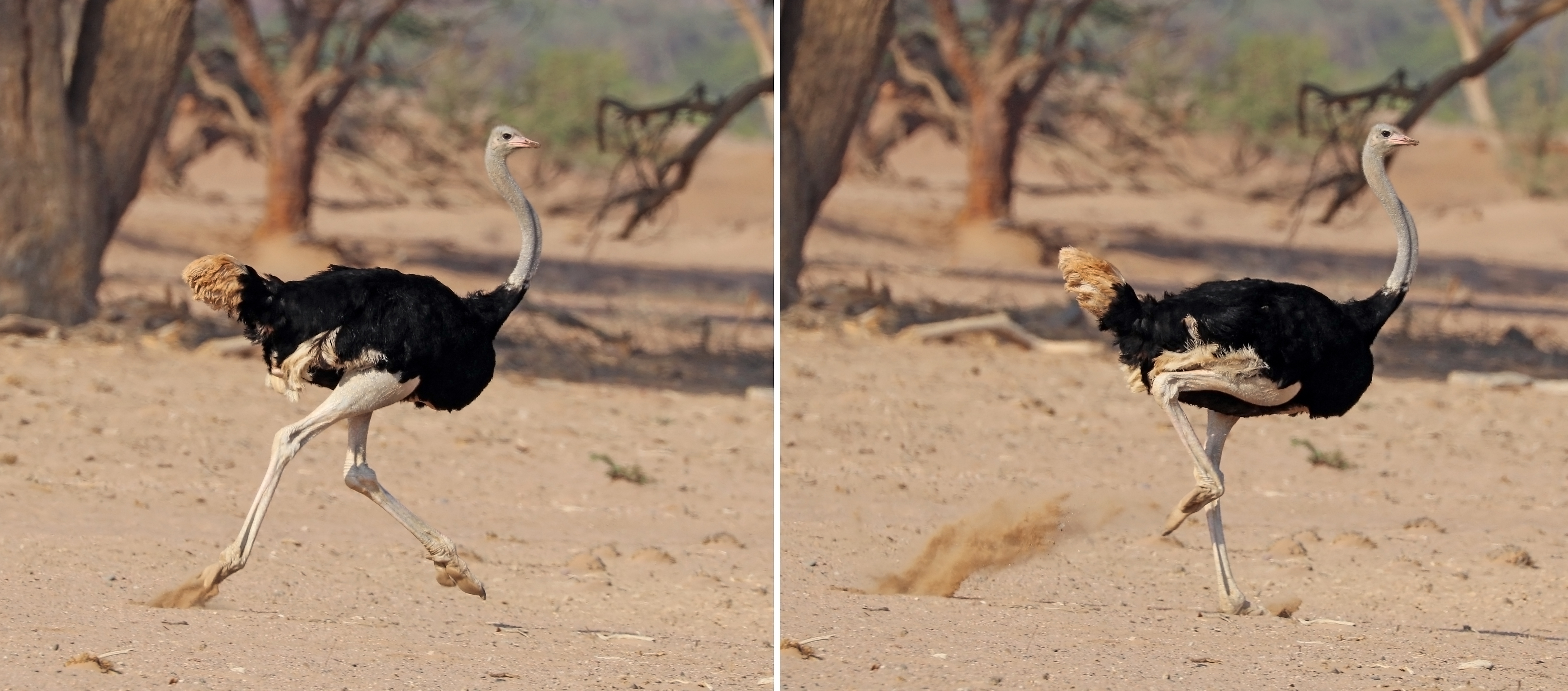 Common ostrich (Struthio camelus australis) male running (composite image), Damaraland, Namibia